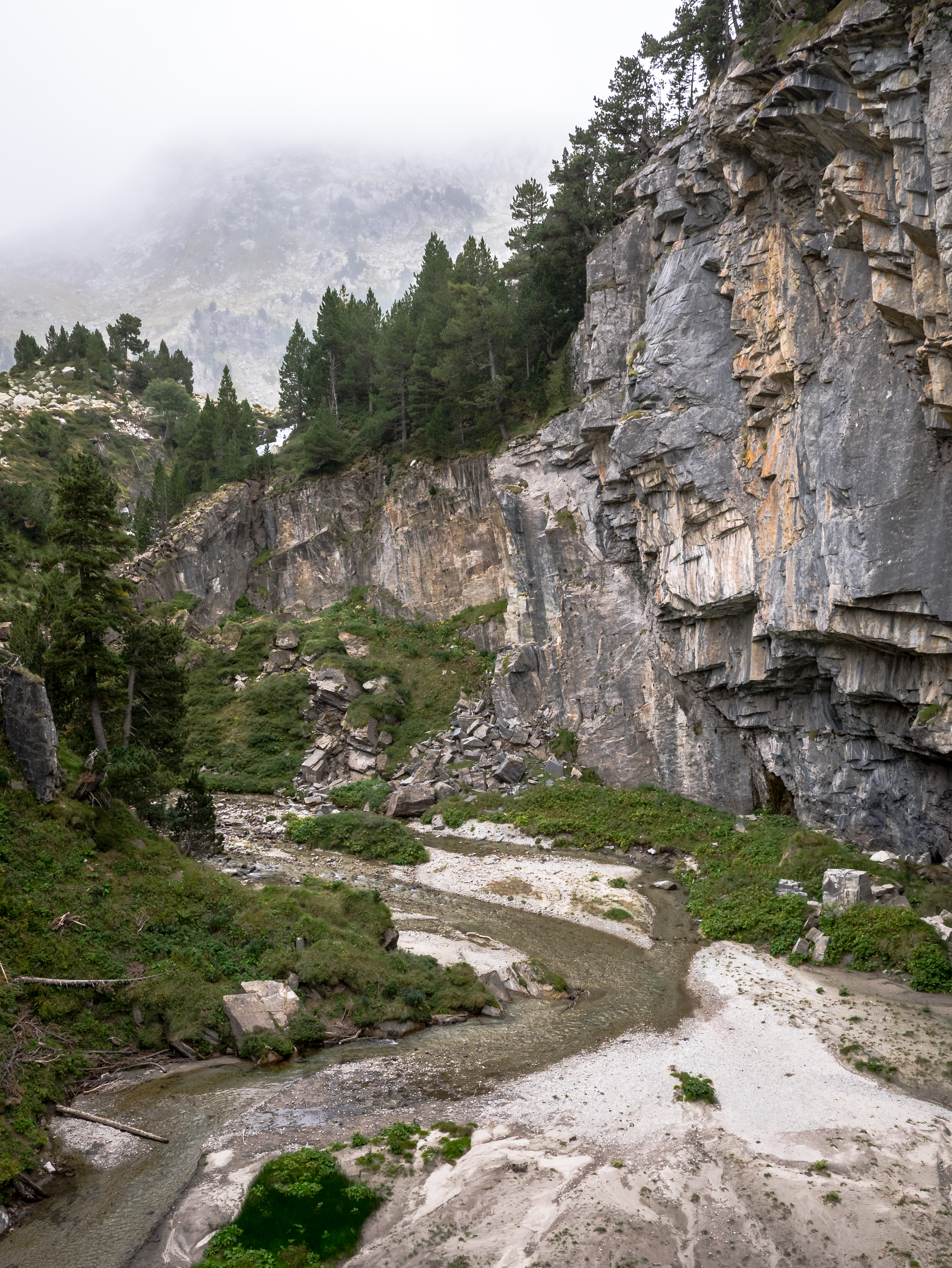 Forau de Aigualluts, the Esera River disappears at this point and seeps completely into the karst. Huesca, Aragon, Spain